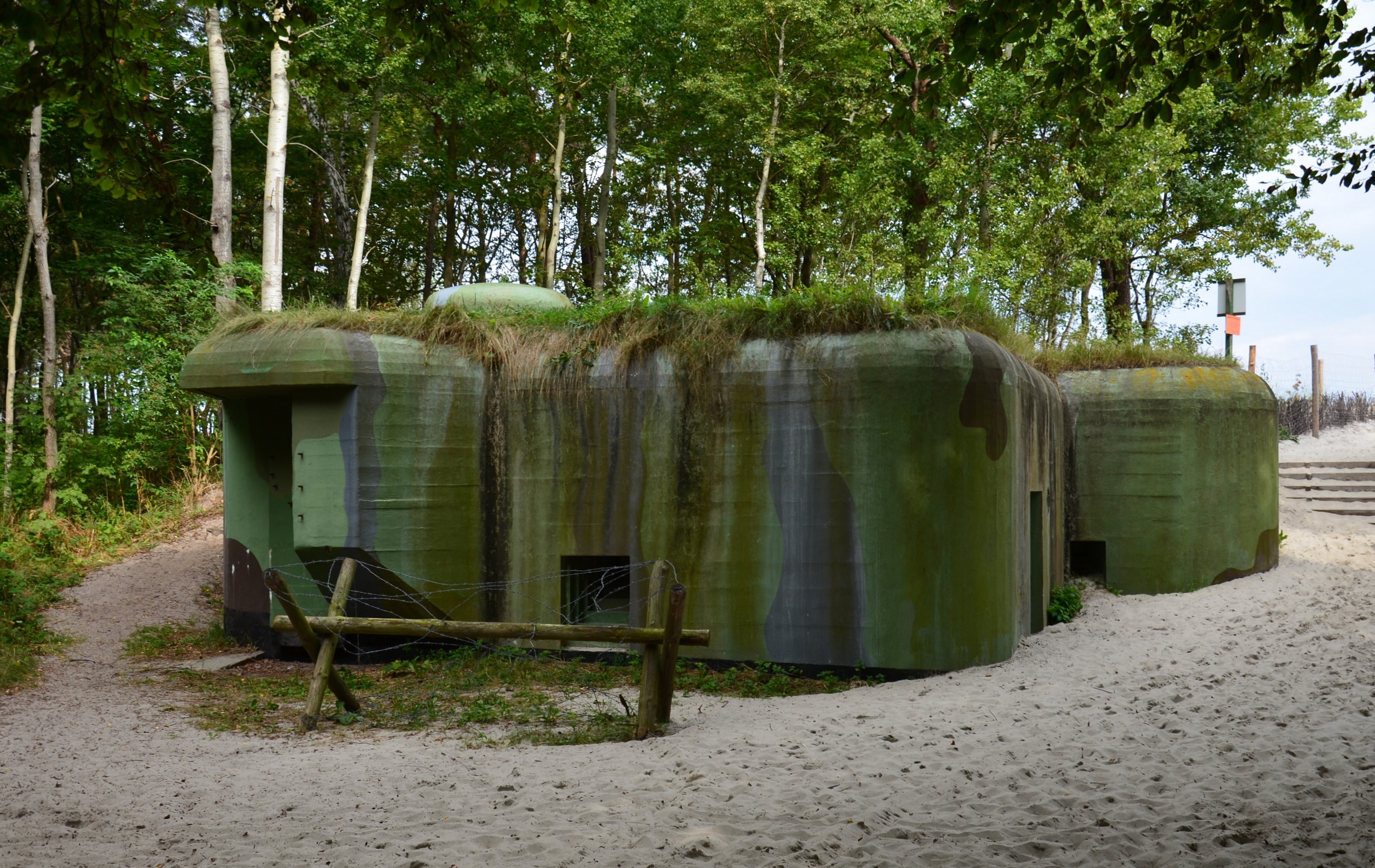 Jastarnia, bunker Saragossa, 1939